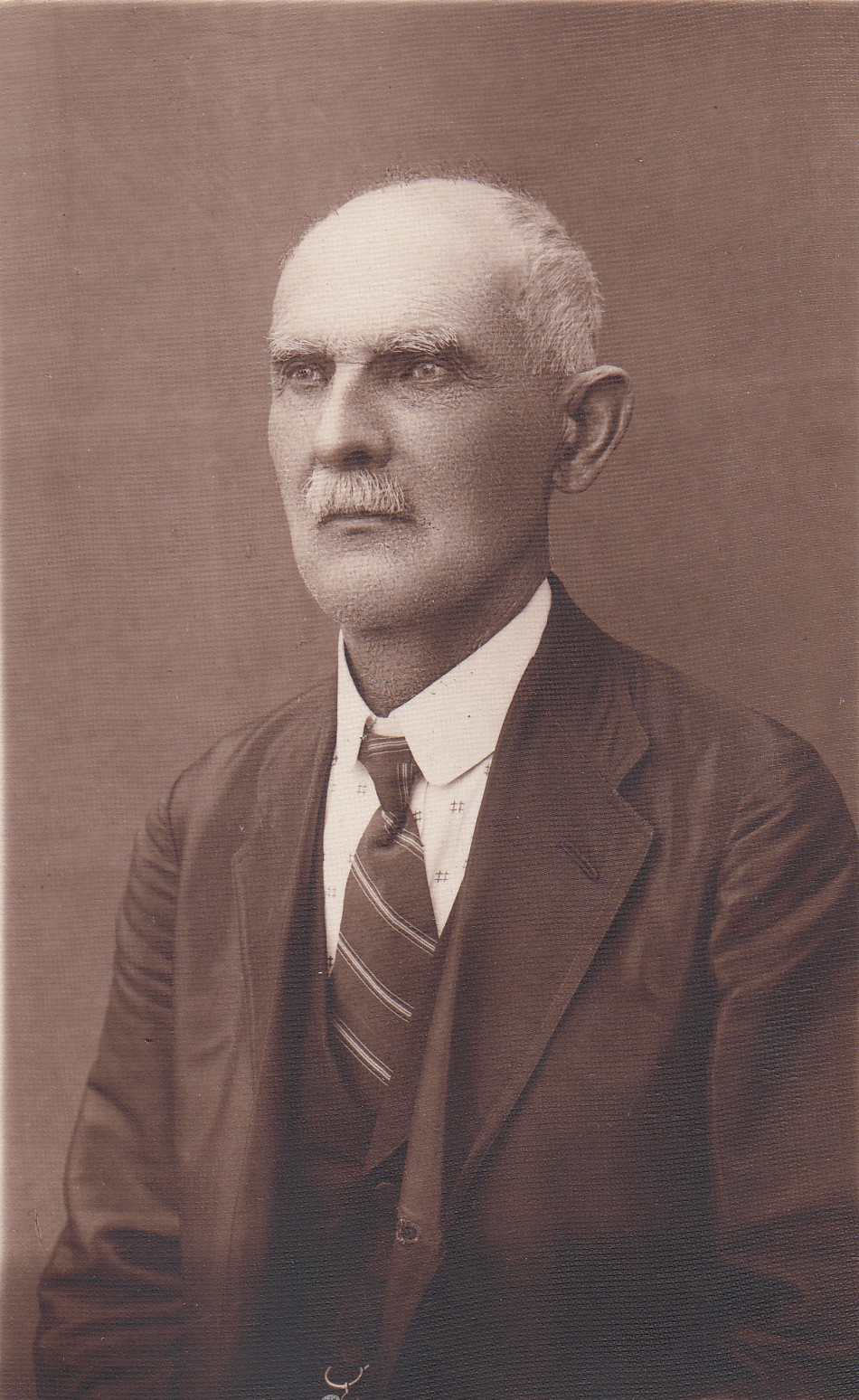 A photograph of Pavol Veselský (1849-1933), Slovak pedagogue, publicist and member of the Romanian Parliament from Tótkomlós/Slovenský Komlóš. Inventory number 2626. Srpski (latinica): Fotografija Pavola Veselskog (1849-1933), slovačkog pedagoga, publiciste i poslanika u Parlamentu Rumunije iz Totkomloša/Slovačkog Komloša. Inventarski broj 2626.